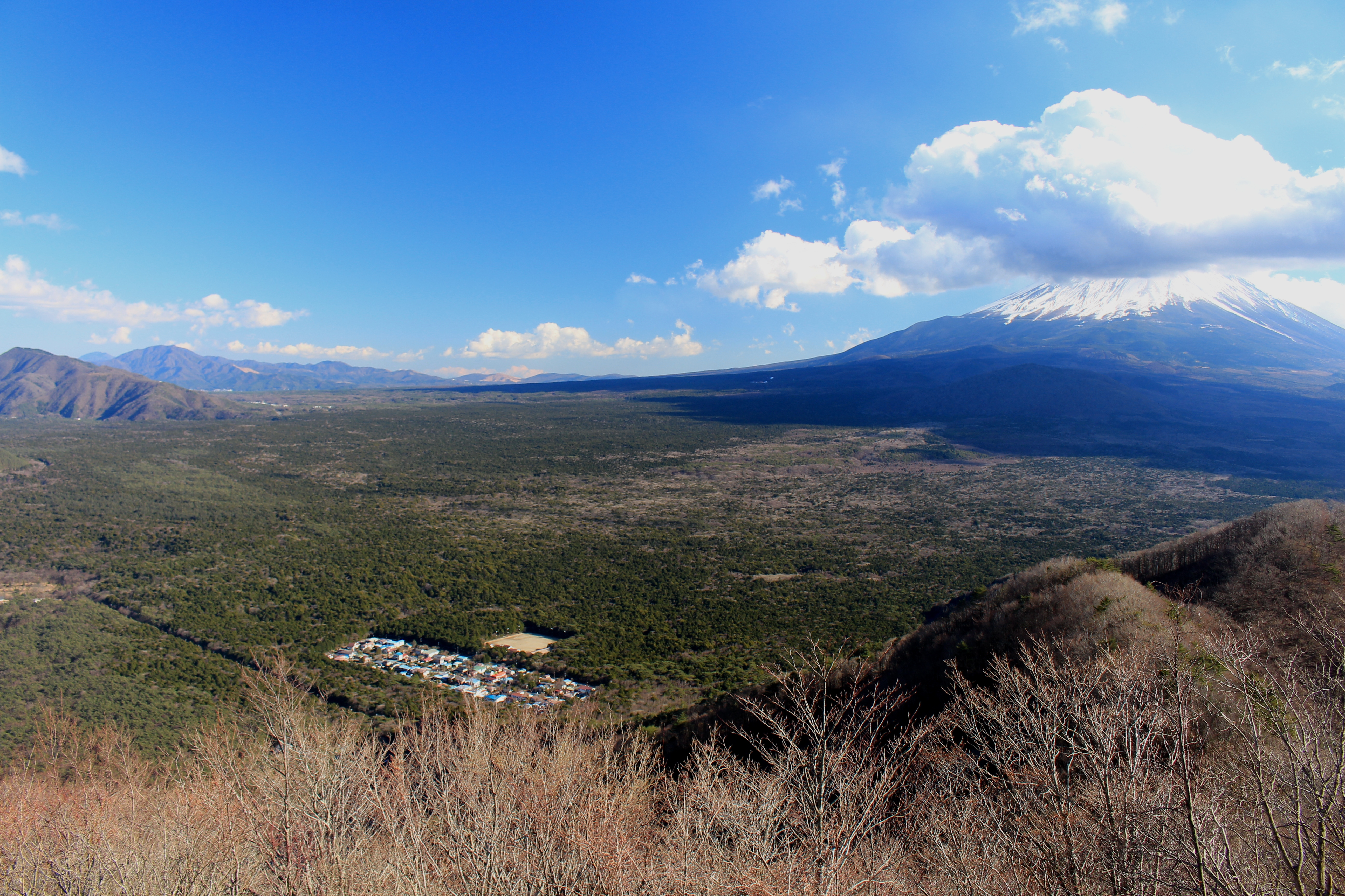 Aokigahara, Mount Ashiwada and Mount Fuji with clouds seen from Panoramadai (Misaka Mountains) in Yamanashi Prefectre, Japan.